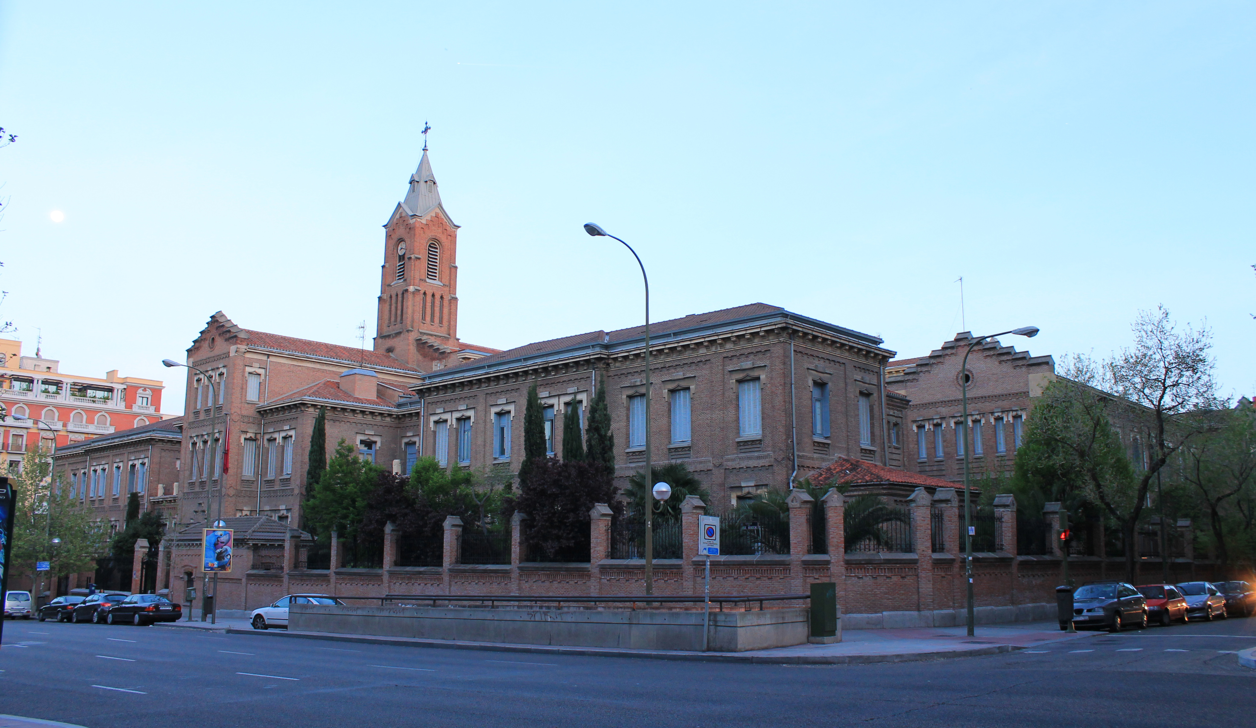 Façade of the Convent of the Company of the Daughters of Charity of Saint Vincent de Paul in Madrid (Spain).